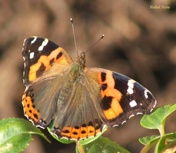 Indian Red Admiral Vanessa indicais a butterfly of Family Nymphalidae. It is found in India in the Himalayas. This is the UP view. This photo was taken by Rahul Natu on 09 Oct 2005 enroute to Milam Glacier, Uttaranchal, India. Donated by Rahul Natu to Wikimedia Commons for use in the Indian butterflies wikibase on Wikipedia. Uploaded by Nature Loader with his permission.